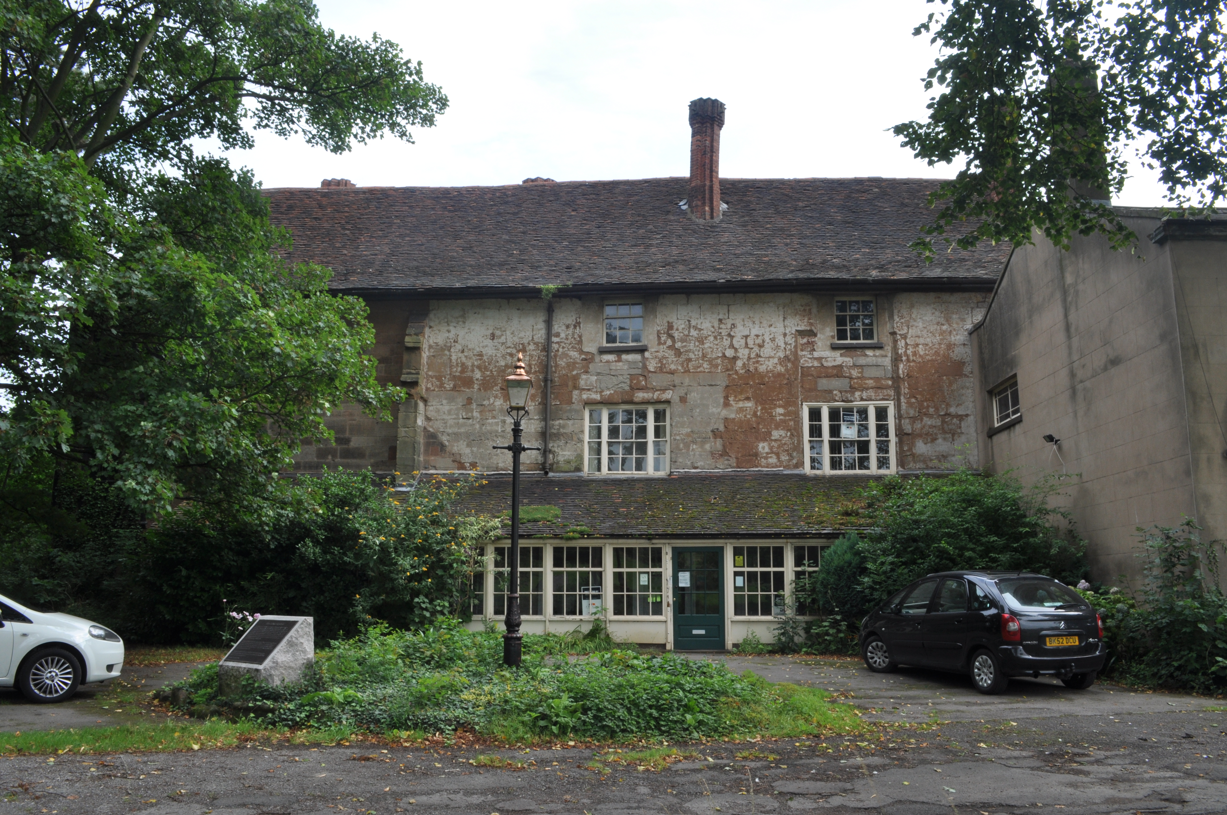 M2 - Charterhouse in Coventry, UK